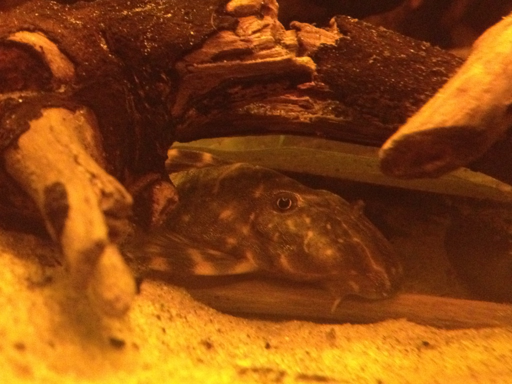 Panaqolus maccus. 2017